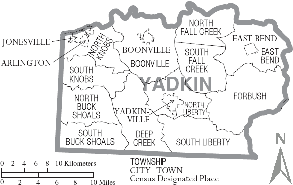 Map of Yadkin County, North Carolina, United States with township and municipal boundaries